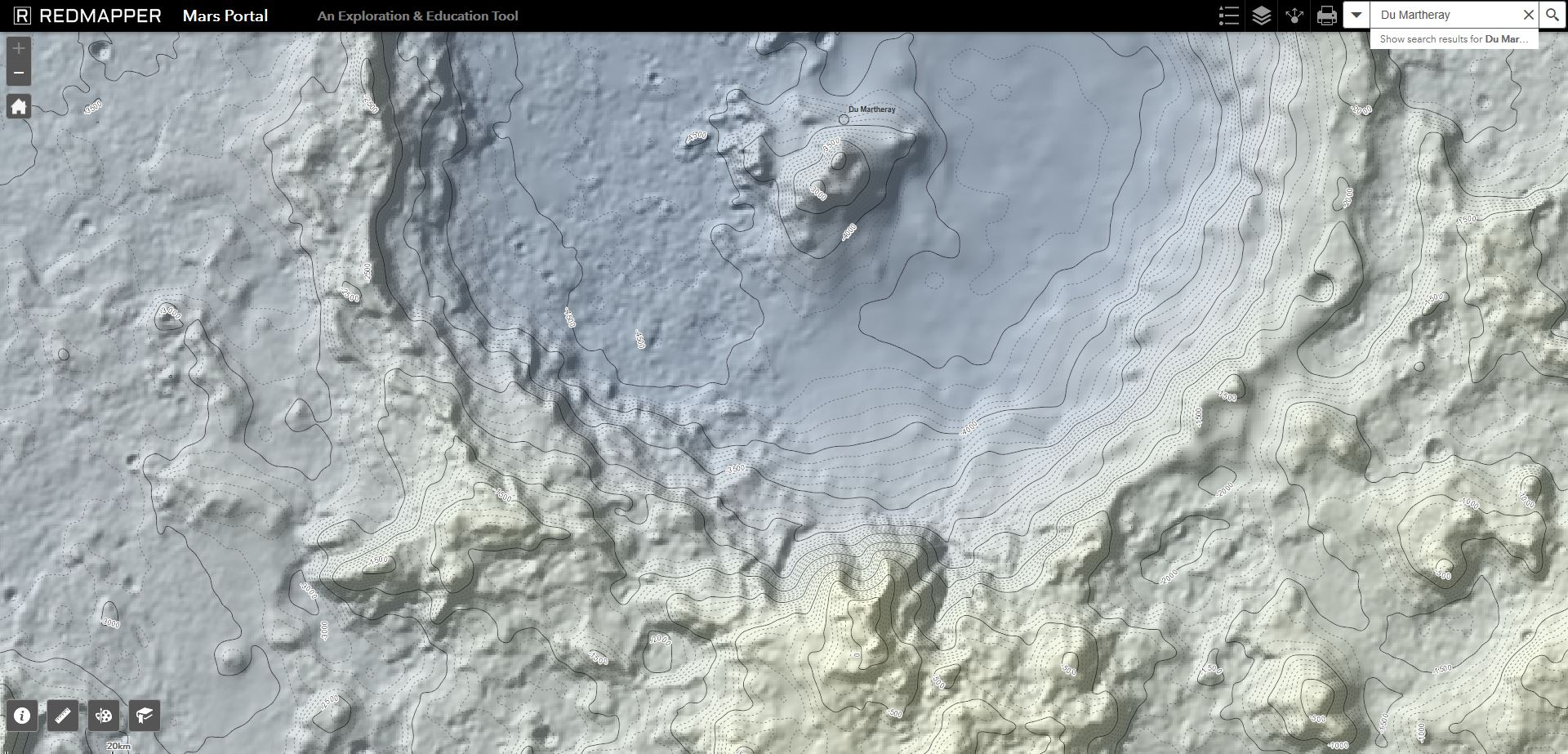 A topographic map created using Mars Orbiter Laser Altimeter (MOLA) data. This map show the relative elevation in 100 meter elevation contour lines (dashed) and 500 meter elevation contour lines (bold) with a total elevation uncertainty of +/- 6 meters.